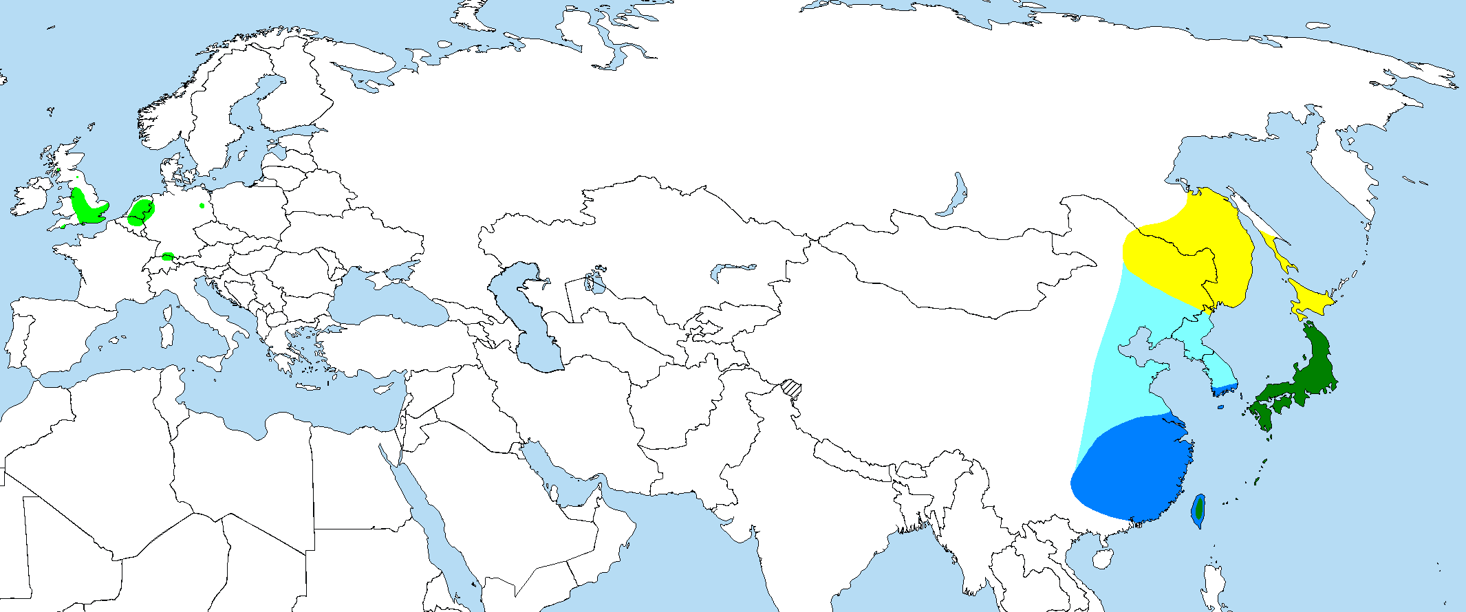 Distribution of Aix galericulata. Natural Yellow: breeding summer visitor Dark green: breeding resident Light blue: passage migrant Dark blue: winter visitor Introduced Light green: breeding resident Data sources: Base map: crop from File:A large blank world map with oceans marked in blue.PNG del Hoyo et al., eds (1992). Handbook of the Birds of the World 1: 598. Madge & Burn (1999). Wildfowl. McKinnon & Phillipps (2000). A Field Guide to the Birds of China. Balmer et al. (2013). Bird Atlas 2007-11.